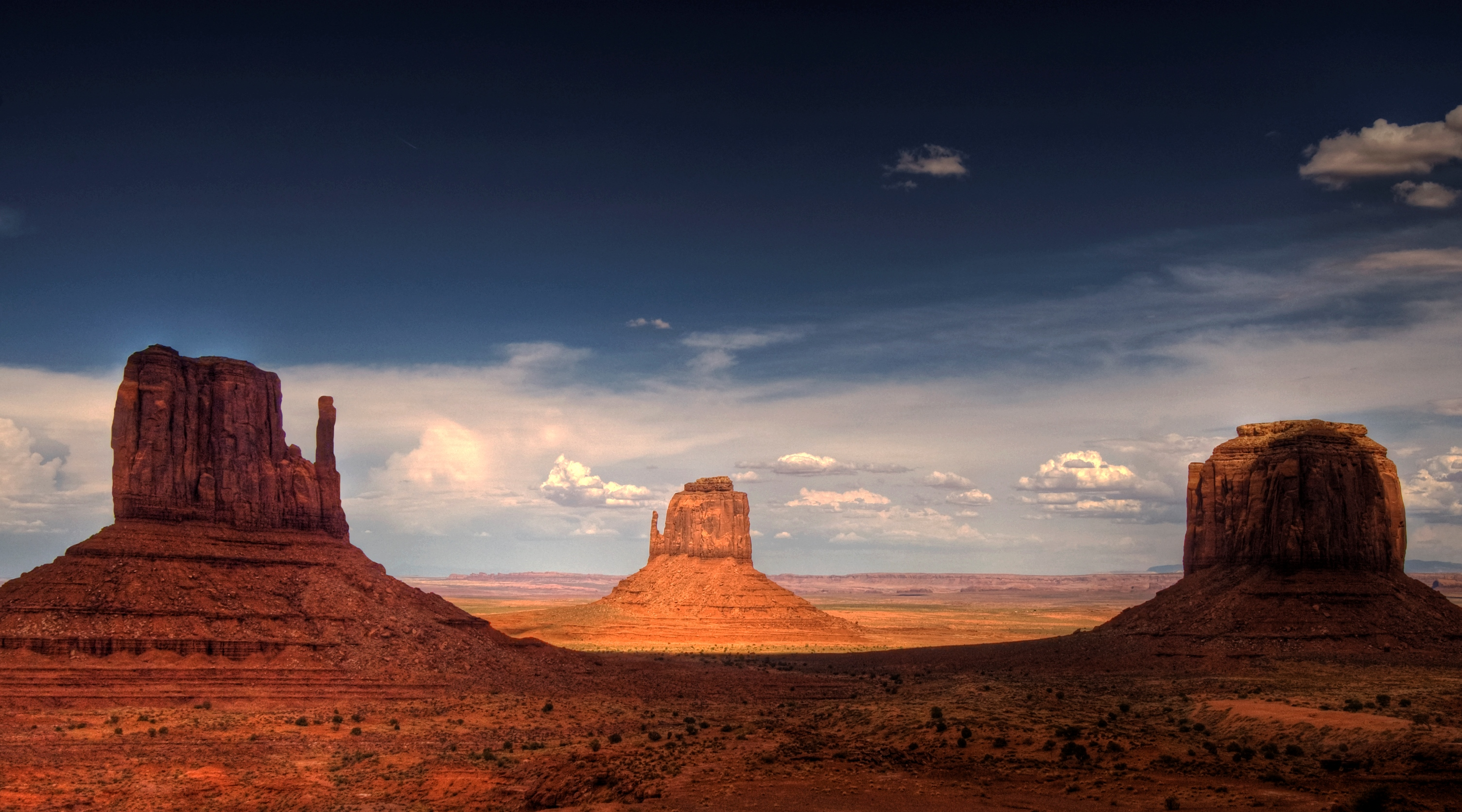 Monument Valley is located on the southern border of Utah with northern Arizona in the USA. The valley lies within the range of the Navajo Nation Reservation, and is accessible from U.S. Highway 163. The Navajo name for the valley is Tsé Bii' Ndzisgaii (Valley of the Rocks).